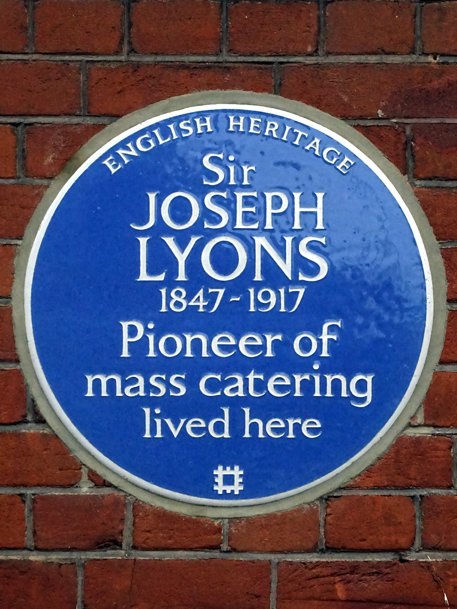 Blue plaque erected in 2016 by English Heritage at 11a Palace Mansions, Hammersmith Road, West Kensington, London W14 8QN, London Borough of Hammersmith and Fulham